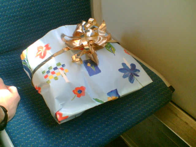 a present with a ribbon on top